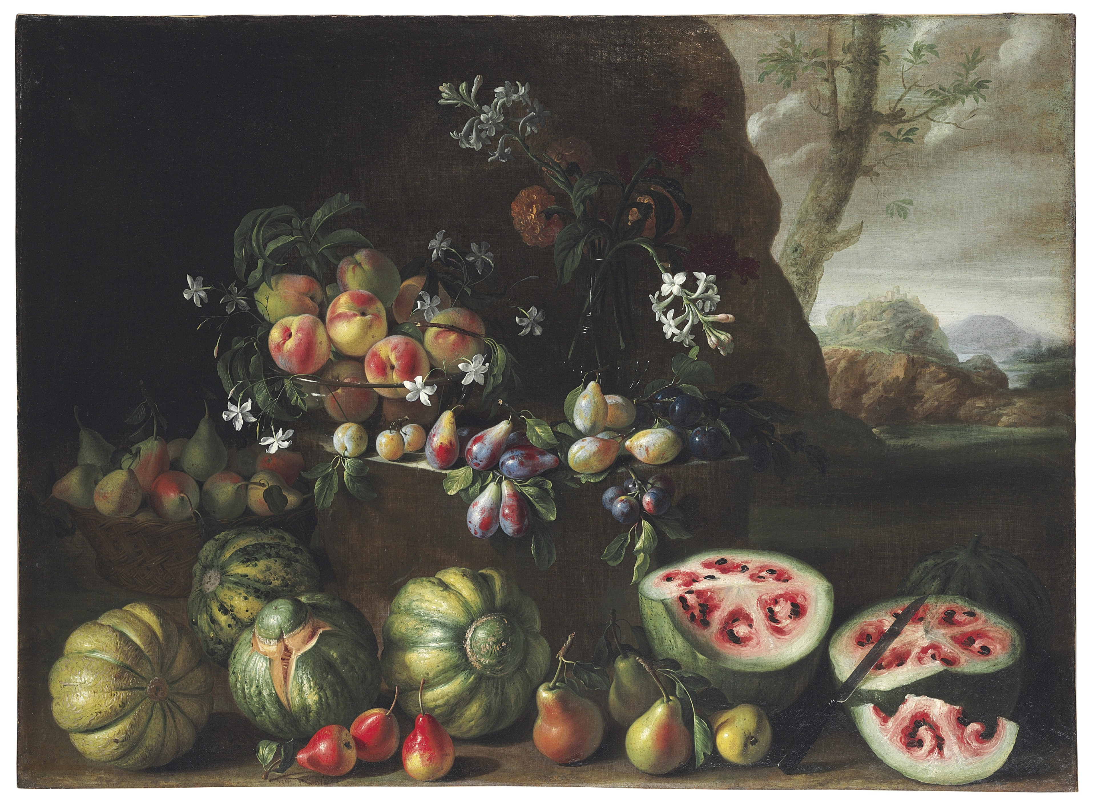 Giovanni Stanchi (Rome c. 1645-1672), Watermelons, peaches, pears and other fruit in a landscape, oil on canvas, 38 5/8 x 52½ in. (98 x 133.5 cm.) (dimensions from Christie's source, which also has a longer explanation)